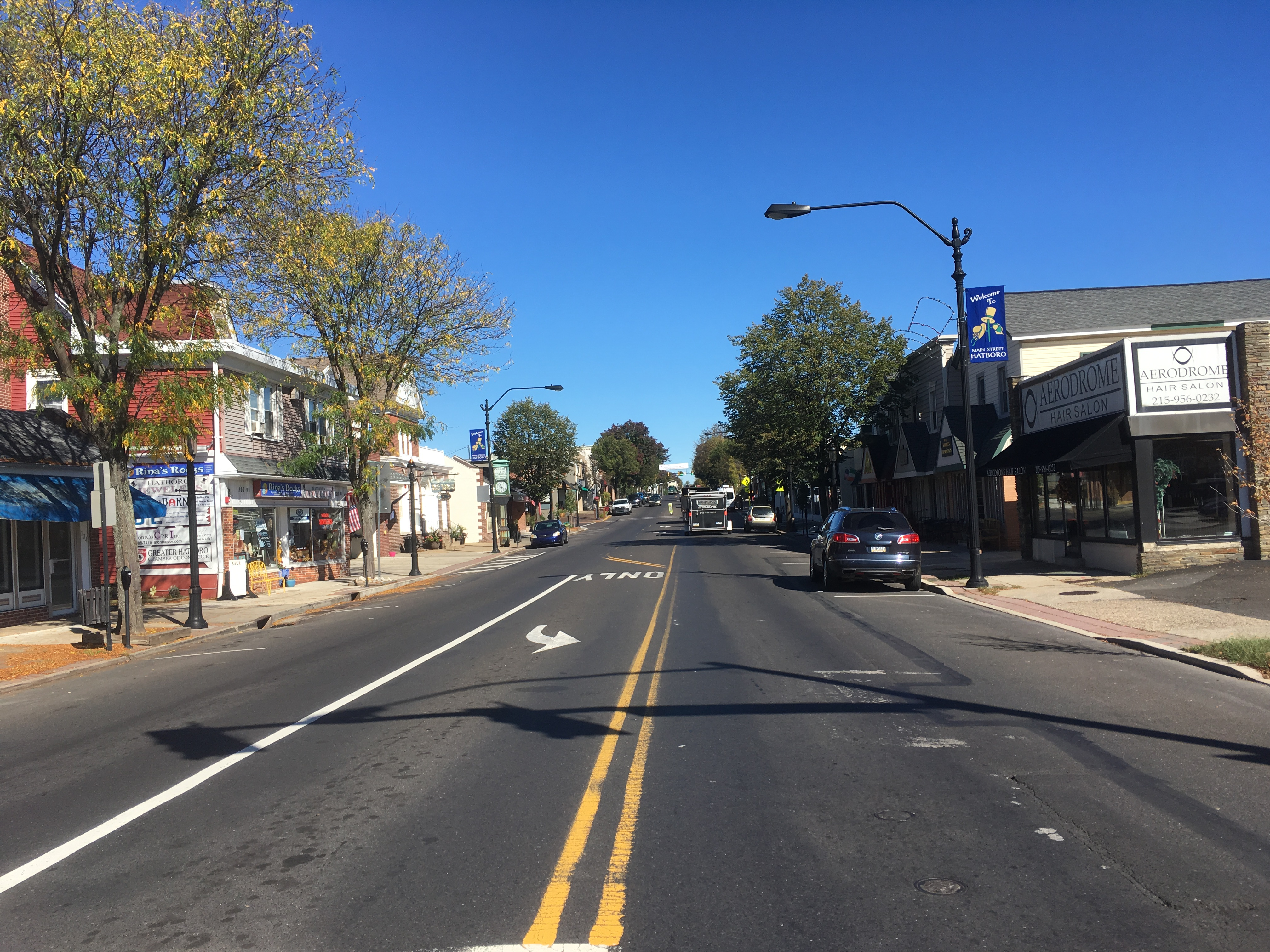 Northbound Pennsylvania Route 263 (York Road) past the intersection with Byberry Road in Hatboro, Pennsylvania.